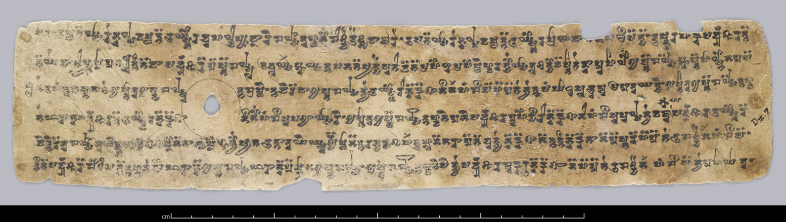 Ink on paper, size (h x w) cm: 8 x 36.7. British Library Catalogue entry: IOL Khot 4/10 excavated at Dandan Uiliq D.iii.1